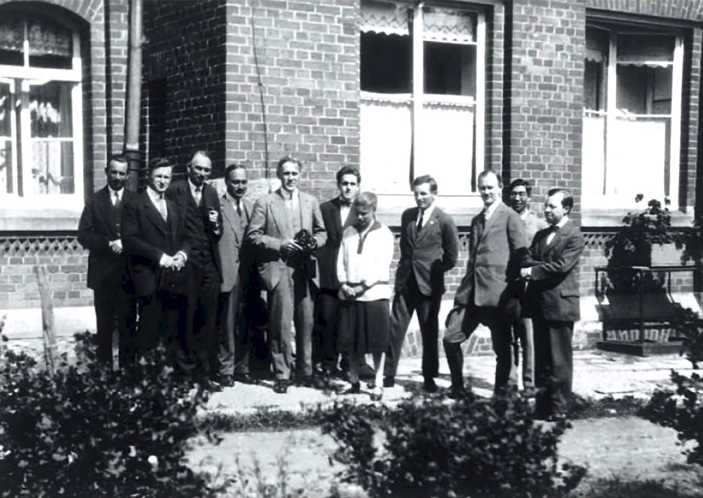 James Franck (1882–1964; 4th from the left), next to him to the right are Robert Williams Wood (1868–1955), Friedrich (Fritz) Georg Houtermans (1903–1966), and Hertha Sponer (1895–1968), future collaborator of Edward Teller (1908–2003) in front of the University of Göttingen Physical Institute.